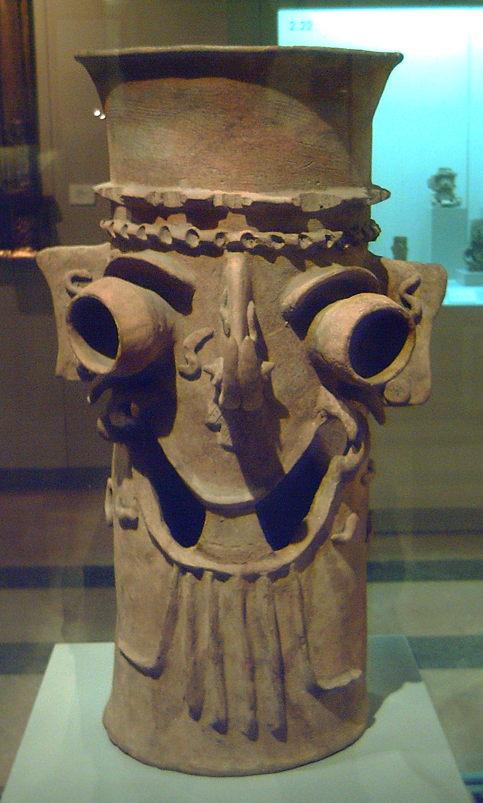 A ceramic incense burner with the image of Aztec god Tlaloc. Colima Style (El Chanal), Early Postclassical Period.